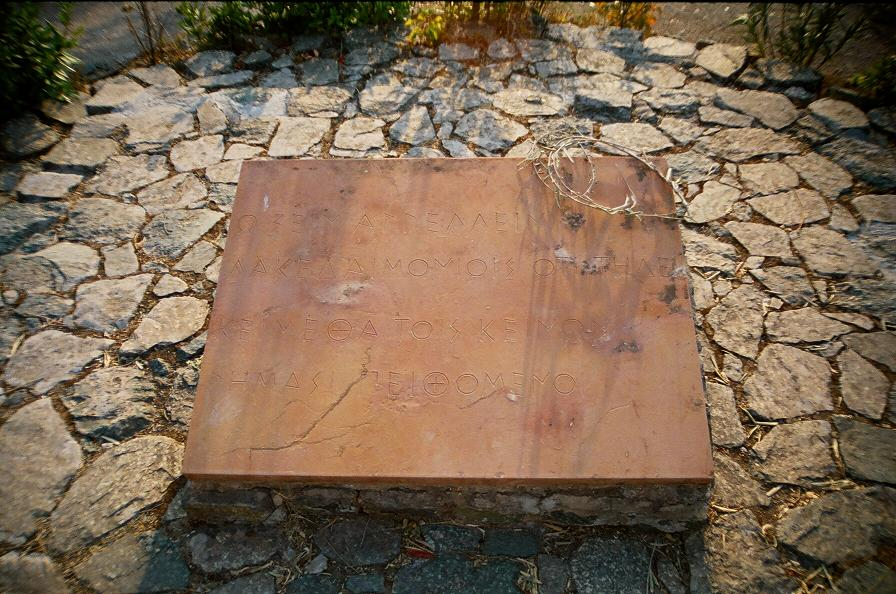 Memorial epitaph of 300 Spartans who died in battle of Thermopylae: Go tell the Spartans, stranger passing by, that here obedient to their laws we lie.